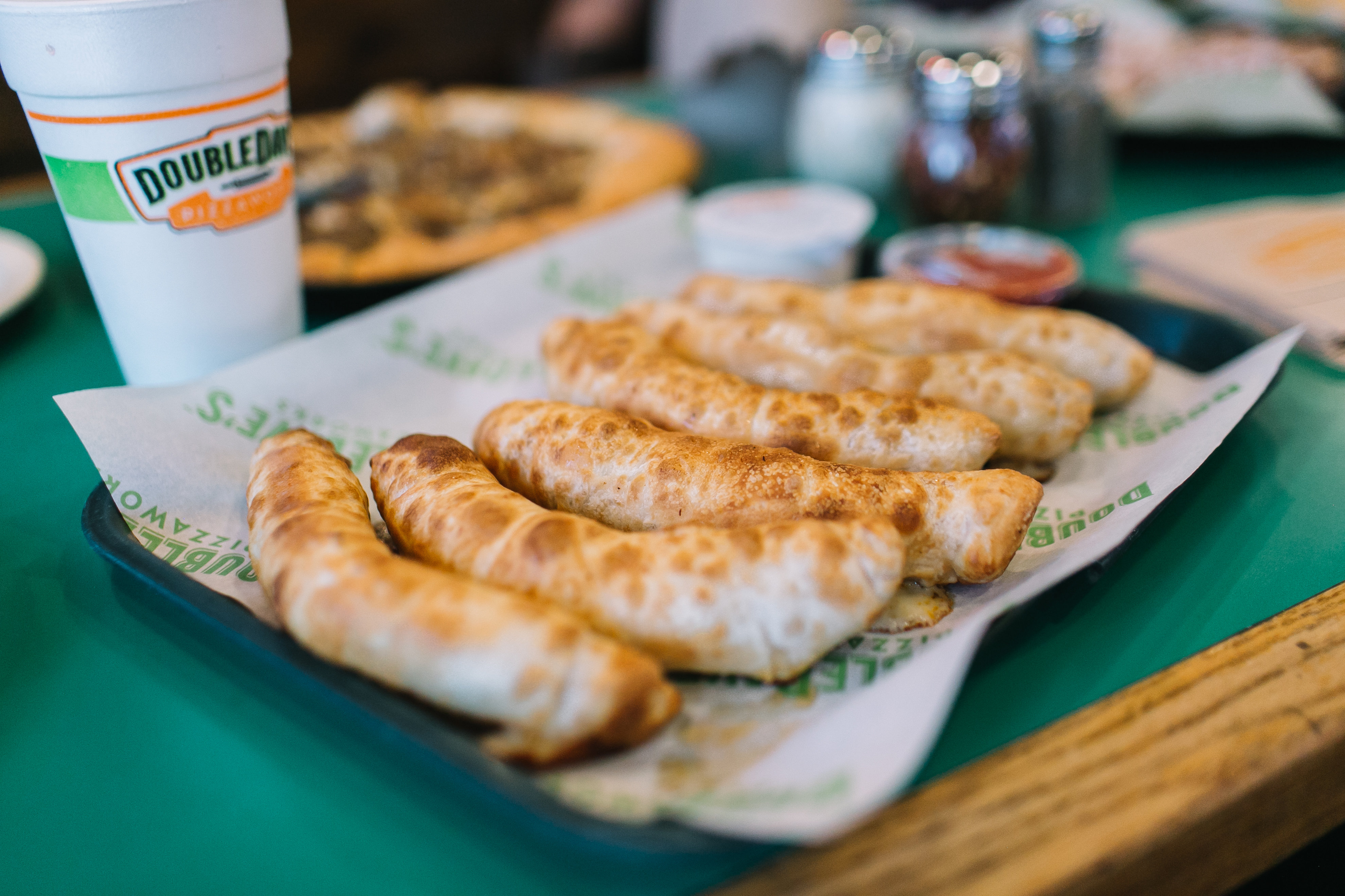 Made Fresh Daily